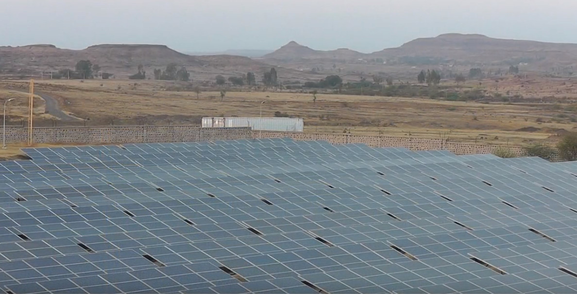 Itnal Solar PV Plant, Chikodi